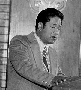 Tosiwo Nakayama, Federated States of Micronesia's first President. (Senate President Tosiwo Nakayama addresses 1966 joint session.)